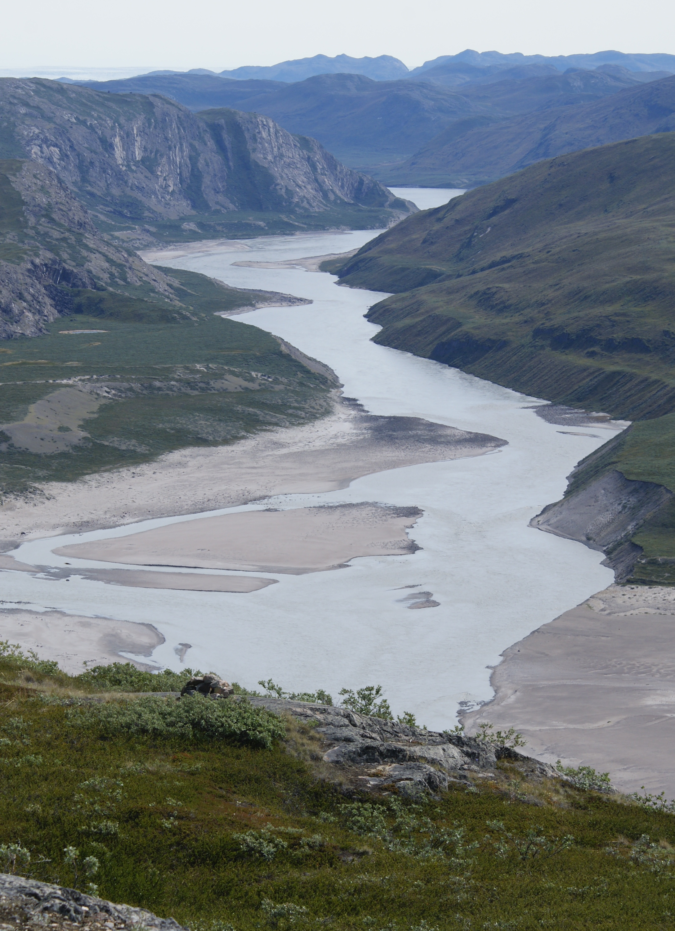 Qinnguata Kuussua, a valley and river flowing from the icesheet in central-western Greenland, east of Kangerlussuaq.